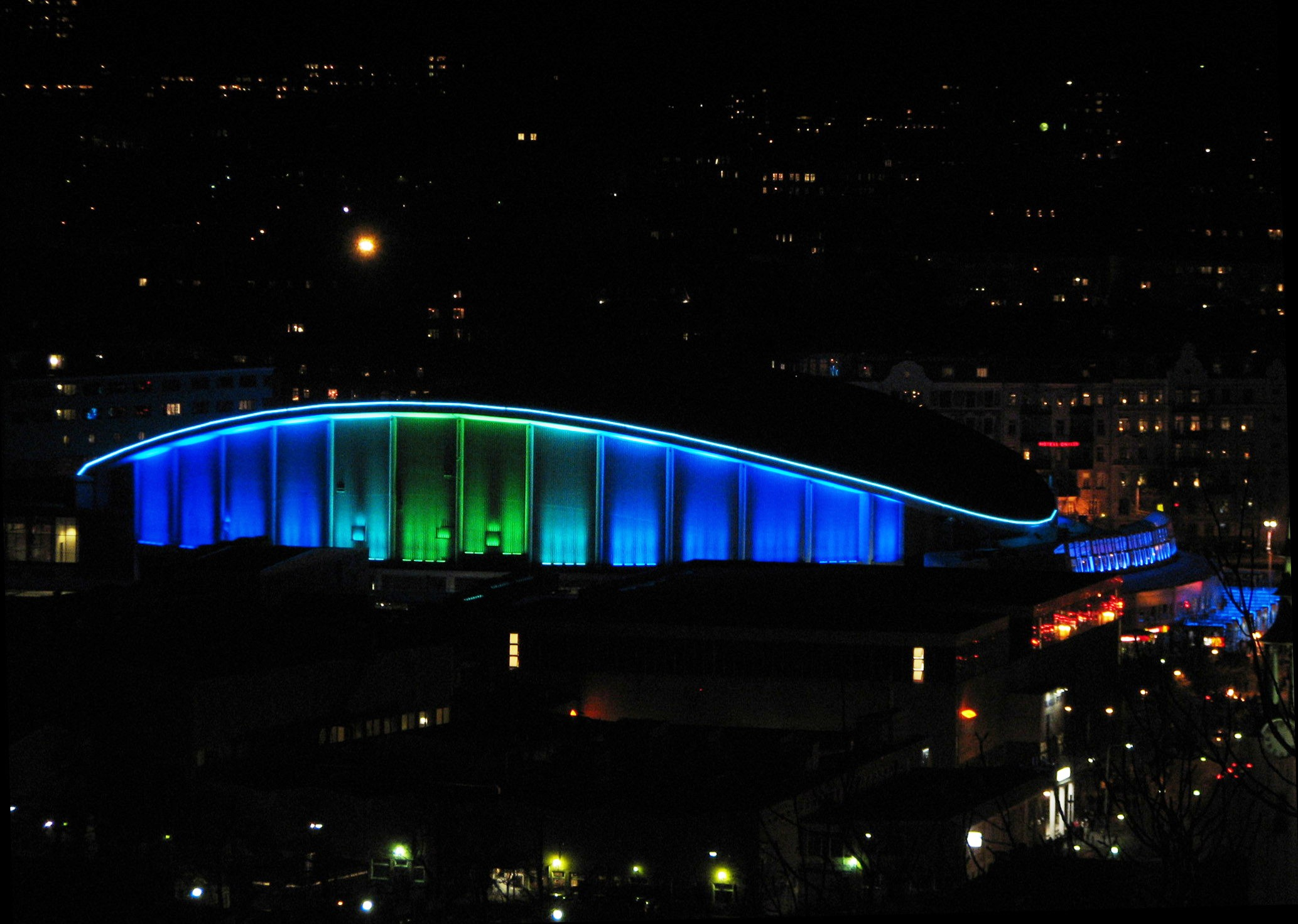 The indoor arena Scandinavium in Göteborg, Sweden by night.